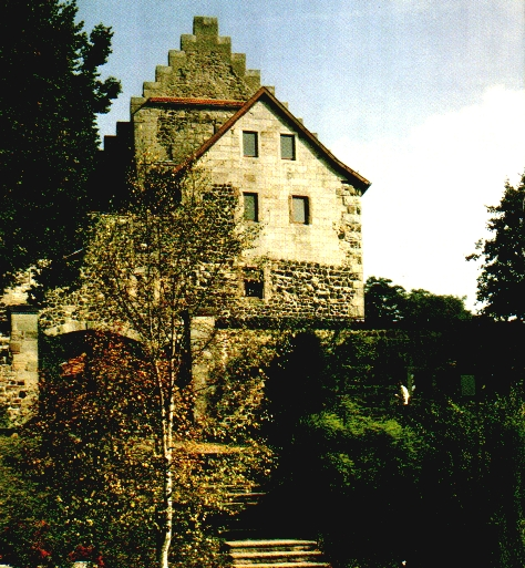 Burg Fürsteneck, castle and academy in Germany, main entrance, view from south